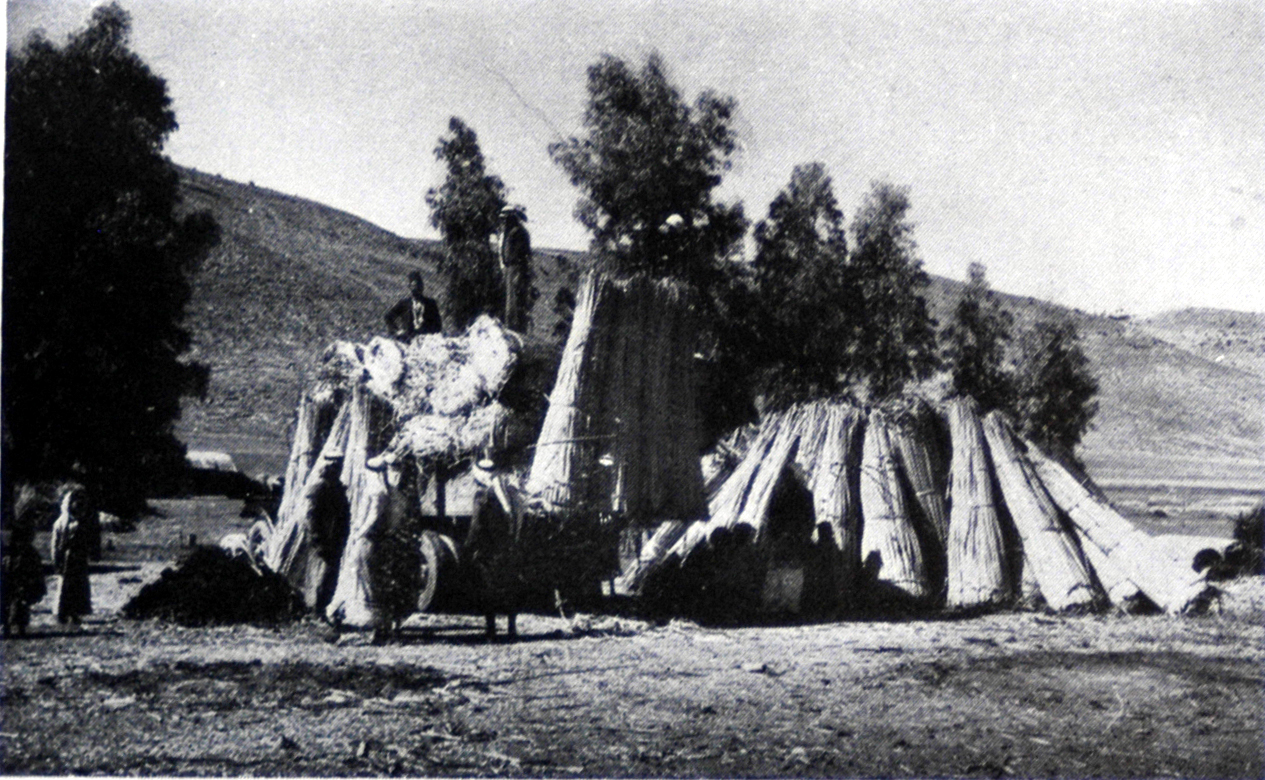 Loading dry Papyrus on to Lorry, Malaha, Palestine.